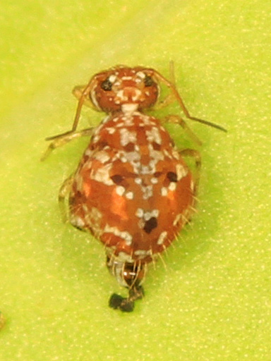 Globular Springtail - Sminthurus medialis, Watson Preserve, Warren, Texas. This is very small - sorry for the lack of clarity on this.